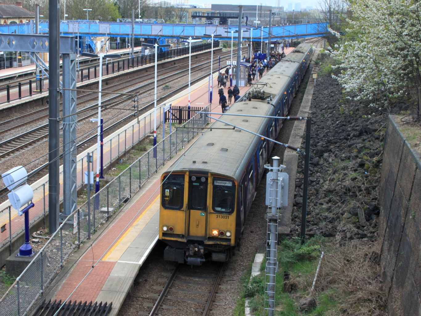 First Capital Connect's 313031 calls at Alexandra Palace on its way to Stevenage.